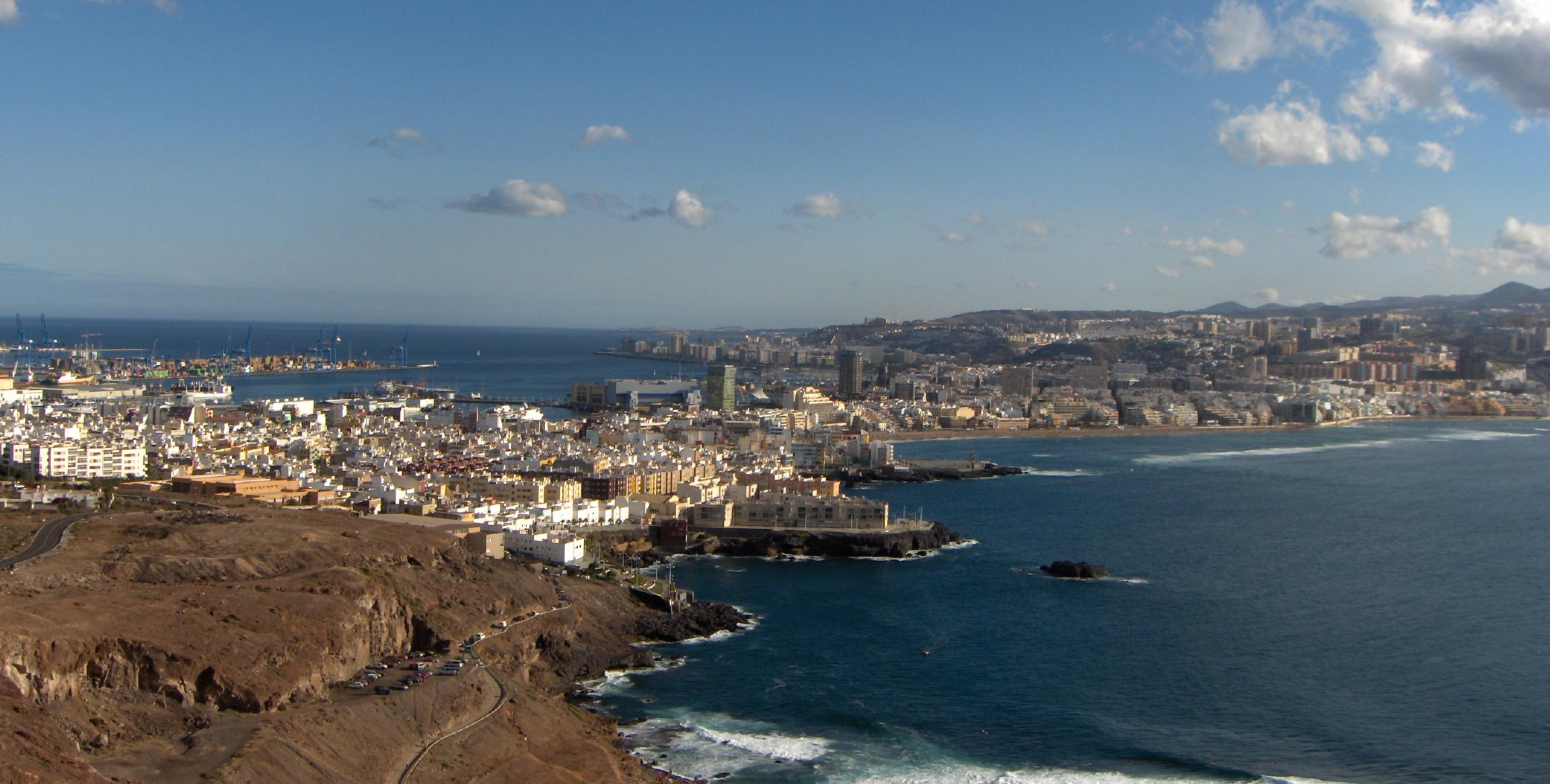 Las Palmas de Gran Canaria, a partial view from La Isleta mountains. Gran Canaria, Canary Islands, (Spain)